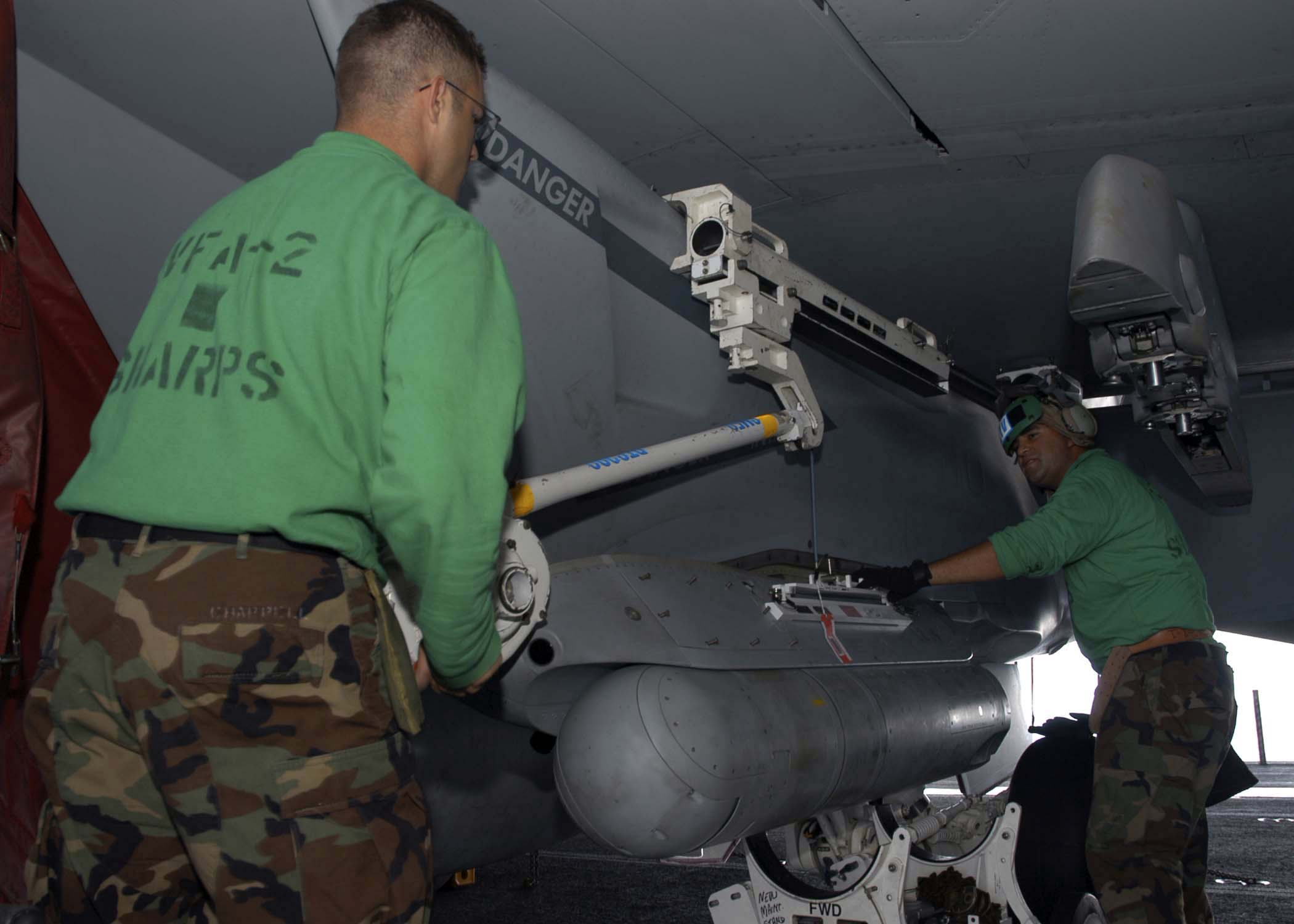 Pacific Ocean (Nov. 13, 2004) - Photographer's Mate 1st Class John Yoder, left, and Photographer's Mate 2nd Class Julian Olivari, install an AN/ASQ-228 Advanced Targeting Forward-Looking Infrared (ATFLIR) Pod on an F/A-18F Super Hornet assigned to the "Bounty Hunters" of Strike Fighter Squadron Two (VFA-2) aboard USS Abraham Lincoln (CVN 72). The ATFLIR Pod is used for precision strike warfare employing laser-guided bombs; global positioning system-guided weapons and freefall bombs; forward air control (airborne); close air support; low altitude night navigation; and battle damage assessment. Lincoln and embarked Carrier Air Wing Two (CVW-2) are currently deployed to the Western Pacific Ocean. U.S. Navy photo by Photographer's Mate Airman Apprentice Timothy C. Roache Jr. (RELEASED)